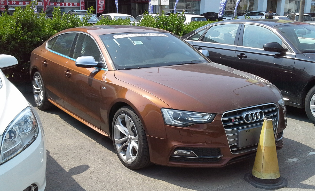 Audi S5 8T Sportback facelift photographed in Beijing, China.